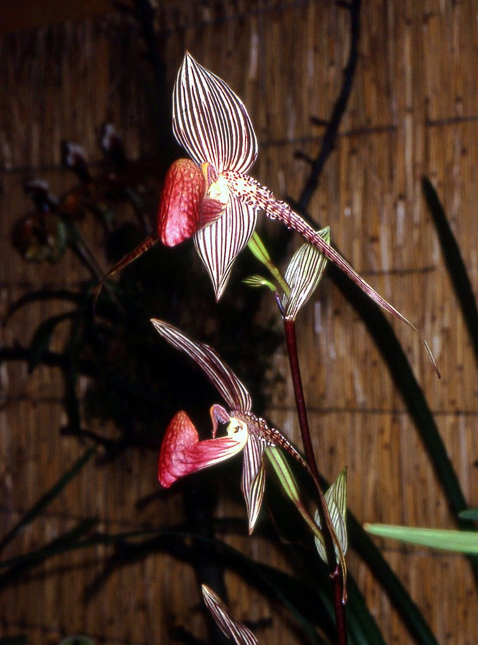 Paphiopedilum rothschildianum - flowers